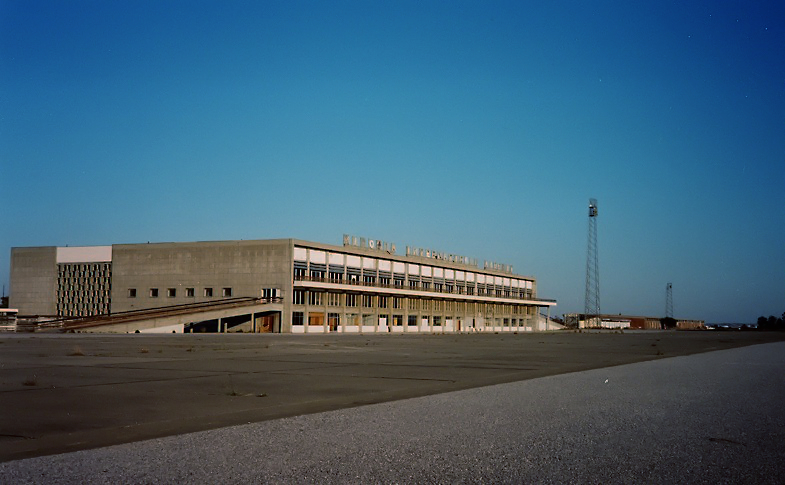 A view of the pan and terminal building at Nicosia International Airport in the United Nations Buffer Zone in Cyprus, closed since the Greek inspired coup and Turkish invasion of the island.